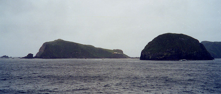 Photo of Diego Ramirez Islands